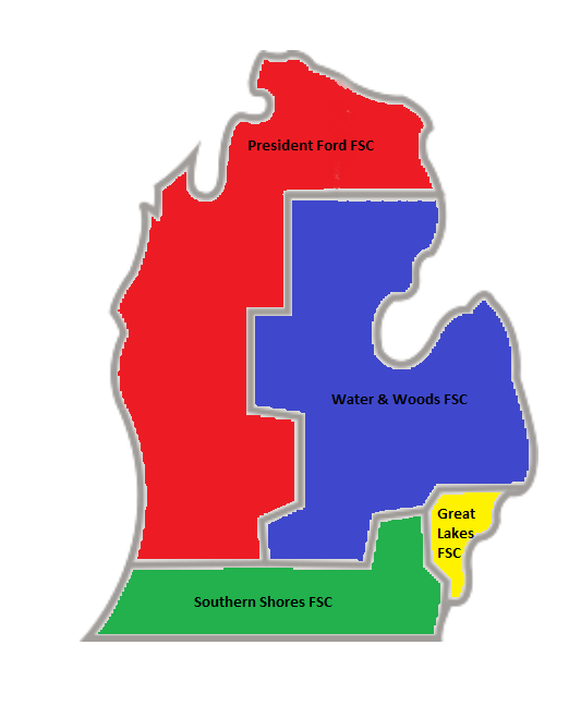 2018 changes to the FSC structure saw the Thunderhead District of the Water & Woods FSC dissolved. Most of the counties it served were absorbed by the President Ford FSC.